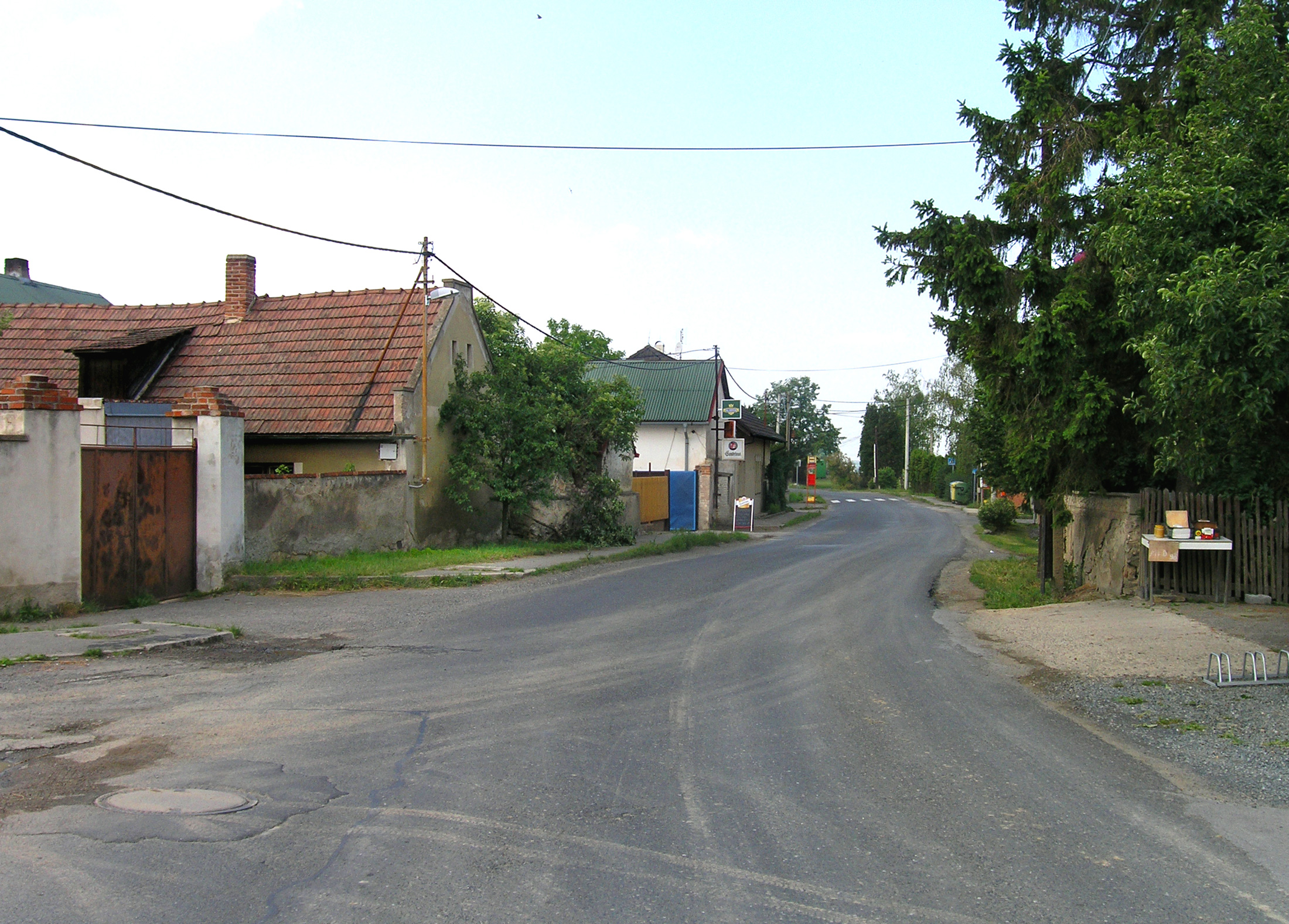 Rozkoš village, part of Průhonice. Czech Republic